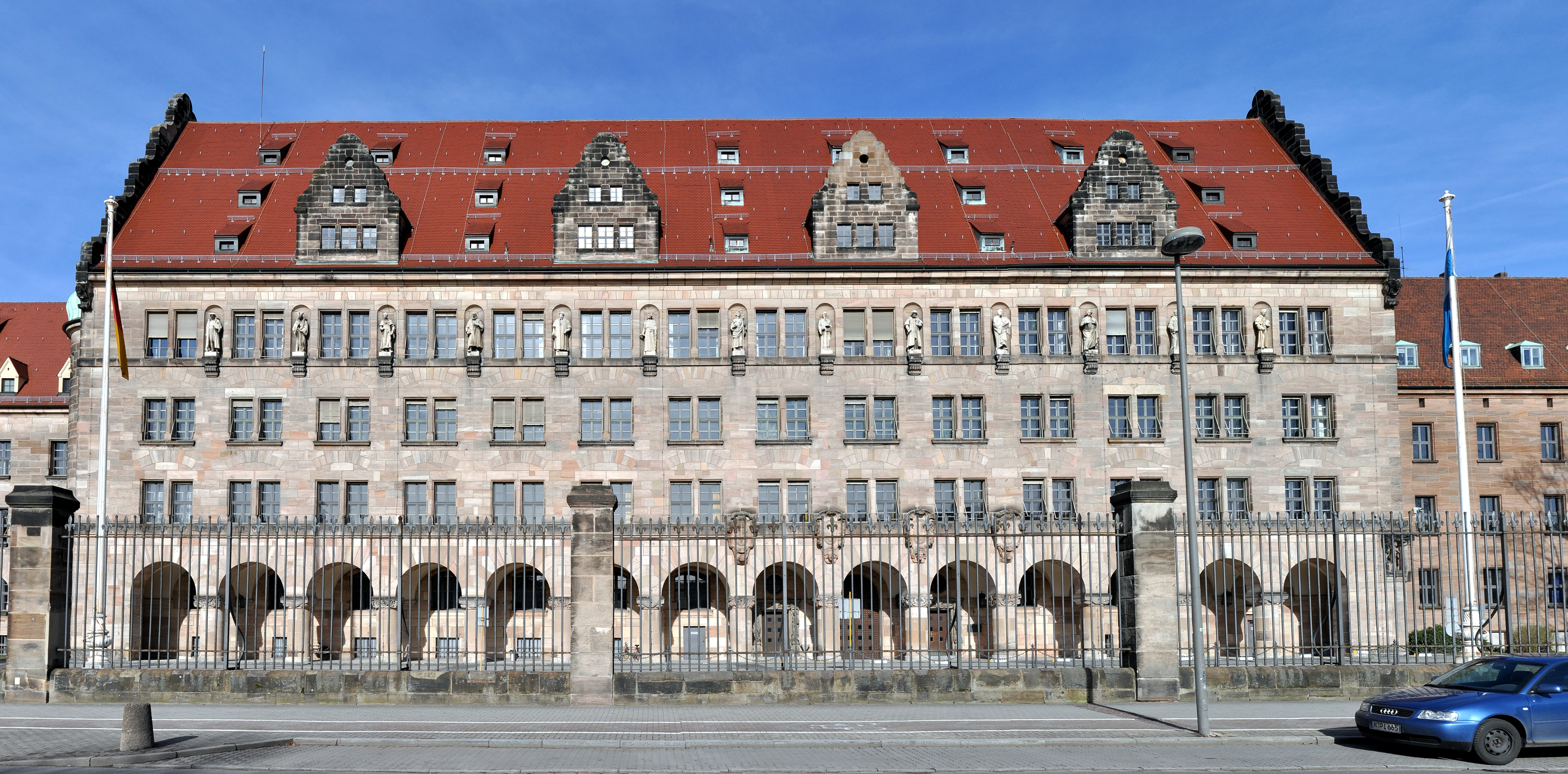 The Justizpalast (Palace of Justice) in Nuremberg